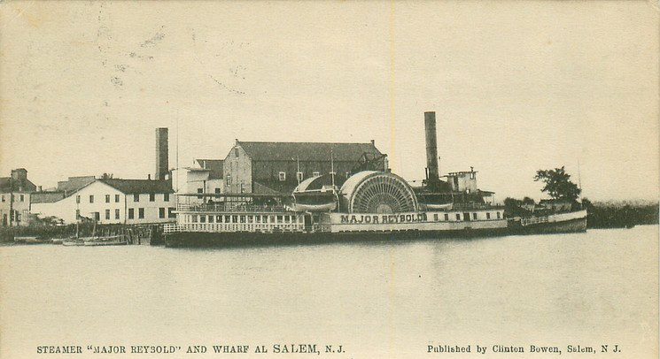 Captioned postcard of the East Coast passenger steamboat Major Reybold at Salem Wharf, New Jersey, ca. 1906